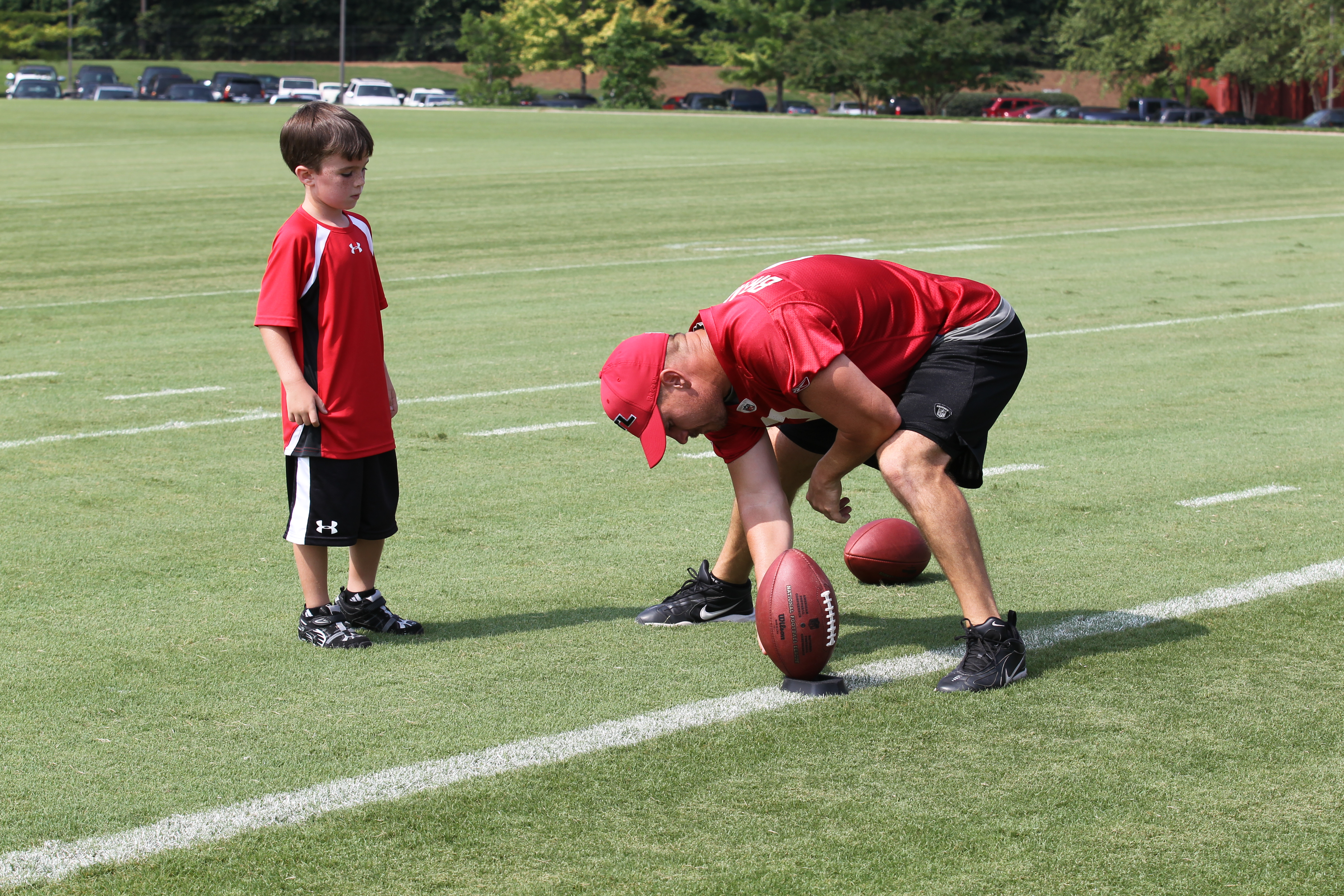 PHOTO CAPTION: Brody Jenrette, 7, son of Shannon Jenrette, widow of Maj. Kevin Jenrette — who died June 4, 2009, in Afghanistan — waits as Atlanta Falcons place kicker Matt Bryant prepares a ball for him to kick Aug. 6 during a Falcons training camp event at the Flowery Branch Headquarters Complex. Brody was one of five children of deceased servicemembers who attended the practice as part of the Survivor Outreach Services (SOS) program at Fort McPherson. SOS provides ongoing support for Families of fallen servicemembers. (Courtesy photo, cleared for public release, not for commercial use, attribution requested.)